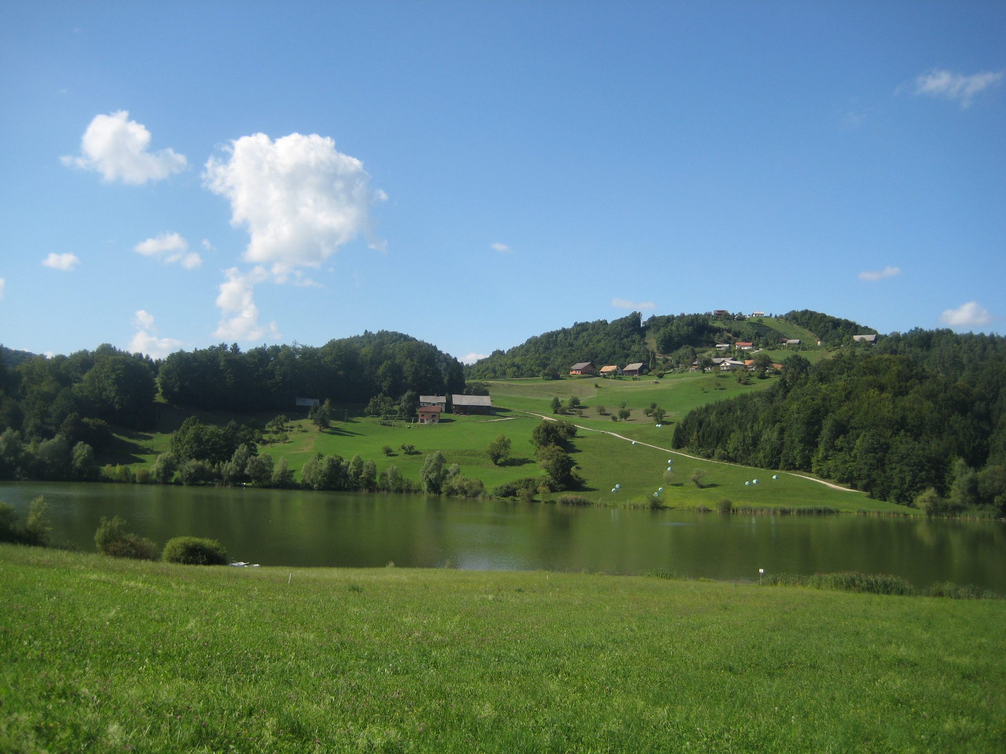 Slivnica lake near Celje, Slovenia